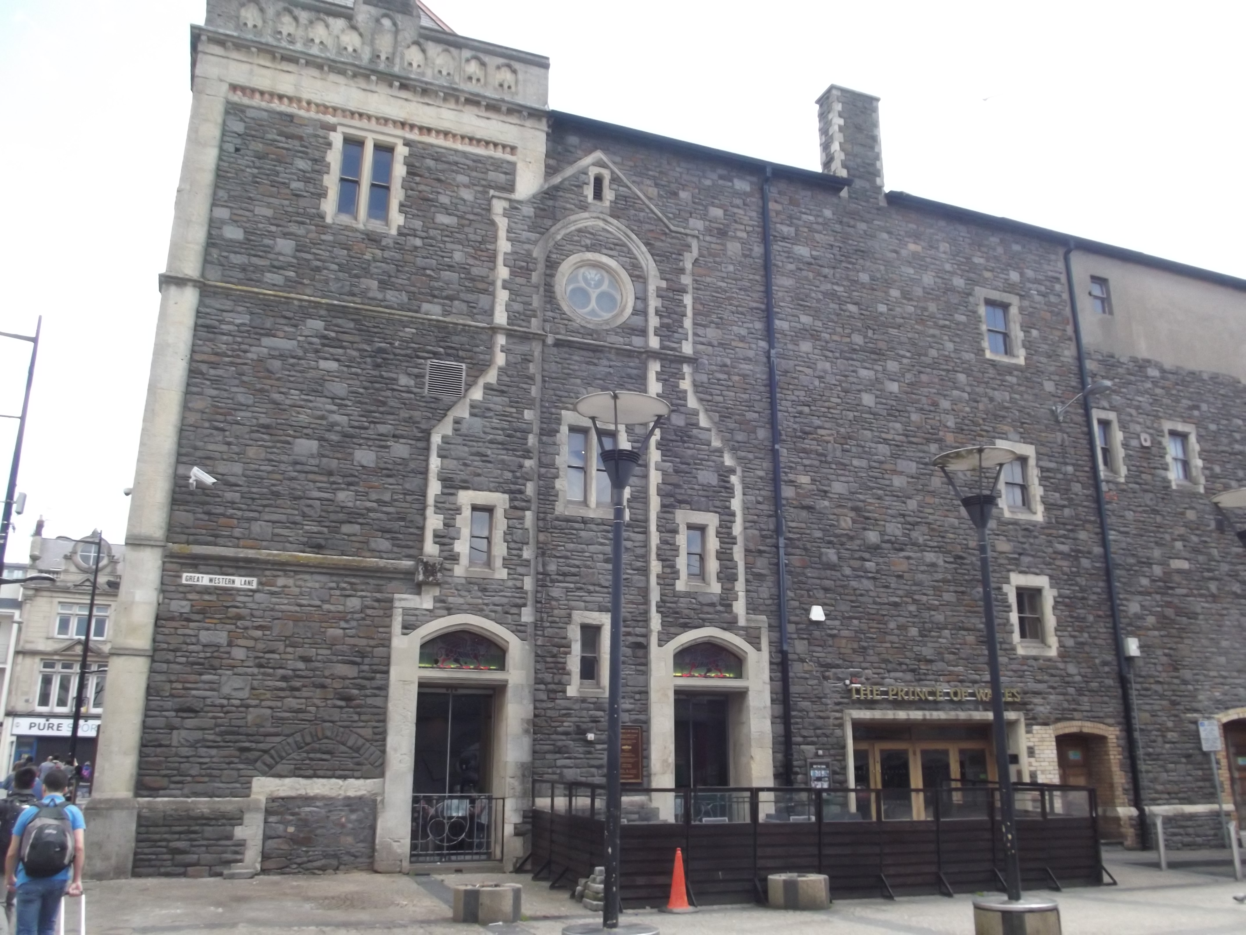 West wall of The Prince of Wales pub (formerly theatre) on Wood Street, Cardiff. It includes the superimposed gable of a Gothic church, giving a nod to St Mary's parish church which was located nearby until the 17th century.